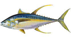 Yellowfin tuna, Thunnus albacares